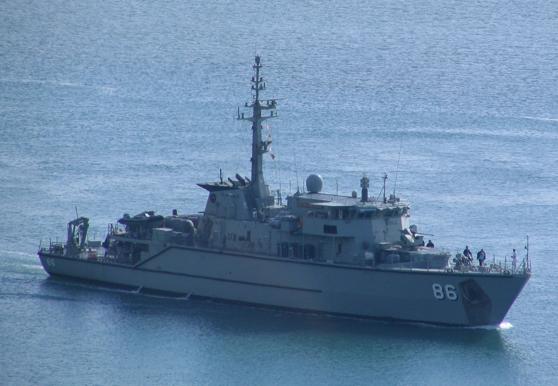 Huon class minehunter HMAS Diamantina (M 86) entering Otago Harbour, New Zealand, from the Flagstaff lookout at Port Chalmers